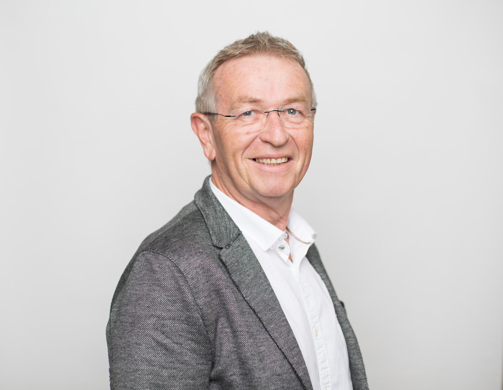 Ladislav Faktor is from 2018 member of the Senate of the Parliament of the Czech Republic